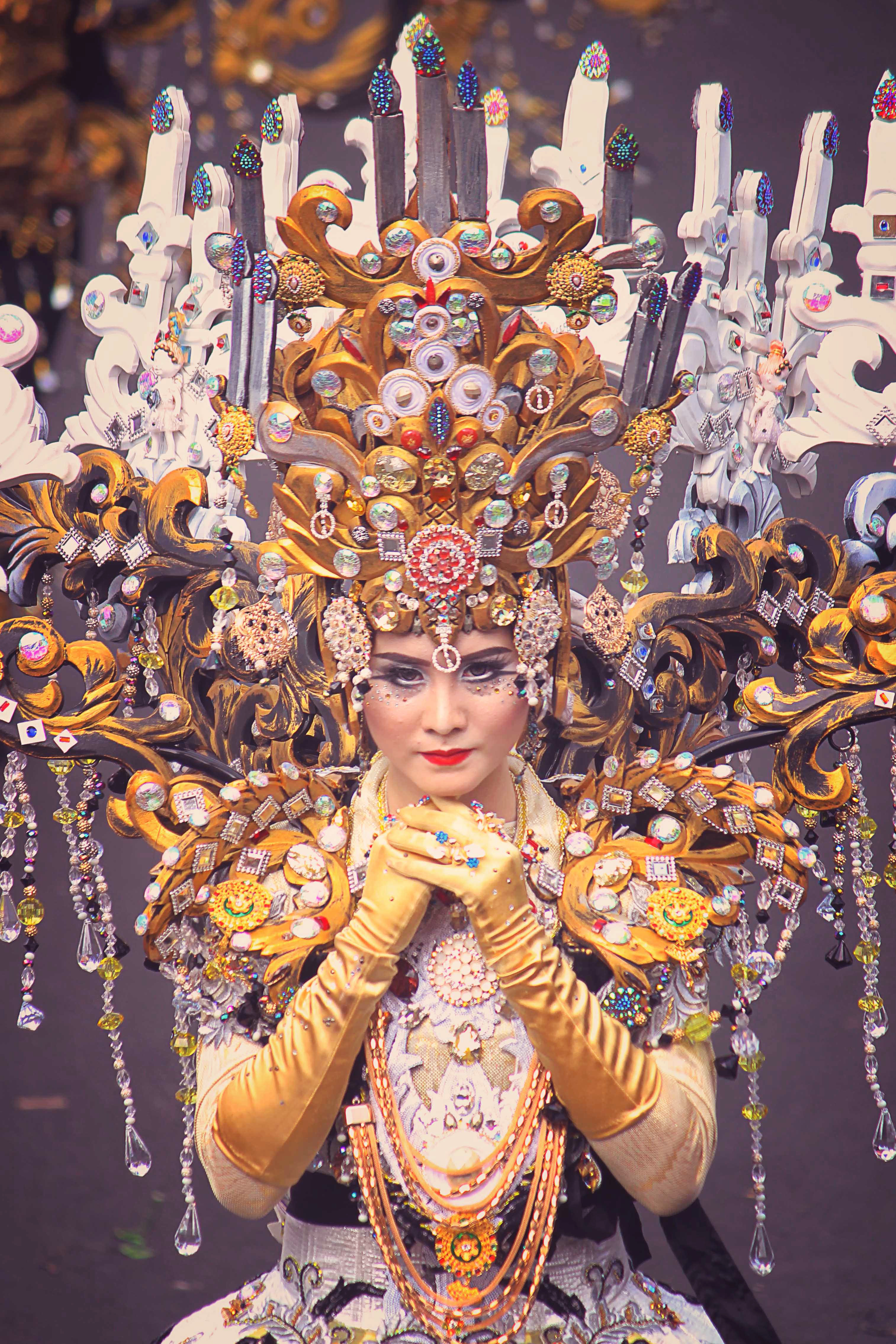 Estelita Liana on JEMBER FASHION CARNAVAL